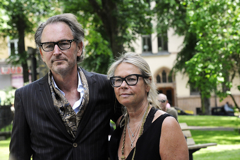 Marie & Tomas Ledin at the funeral of Magnus Härenstam at Hedvig Eleonora Church, Stockholm.